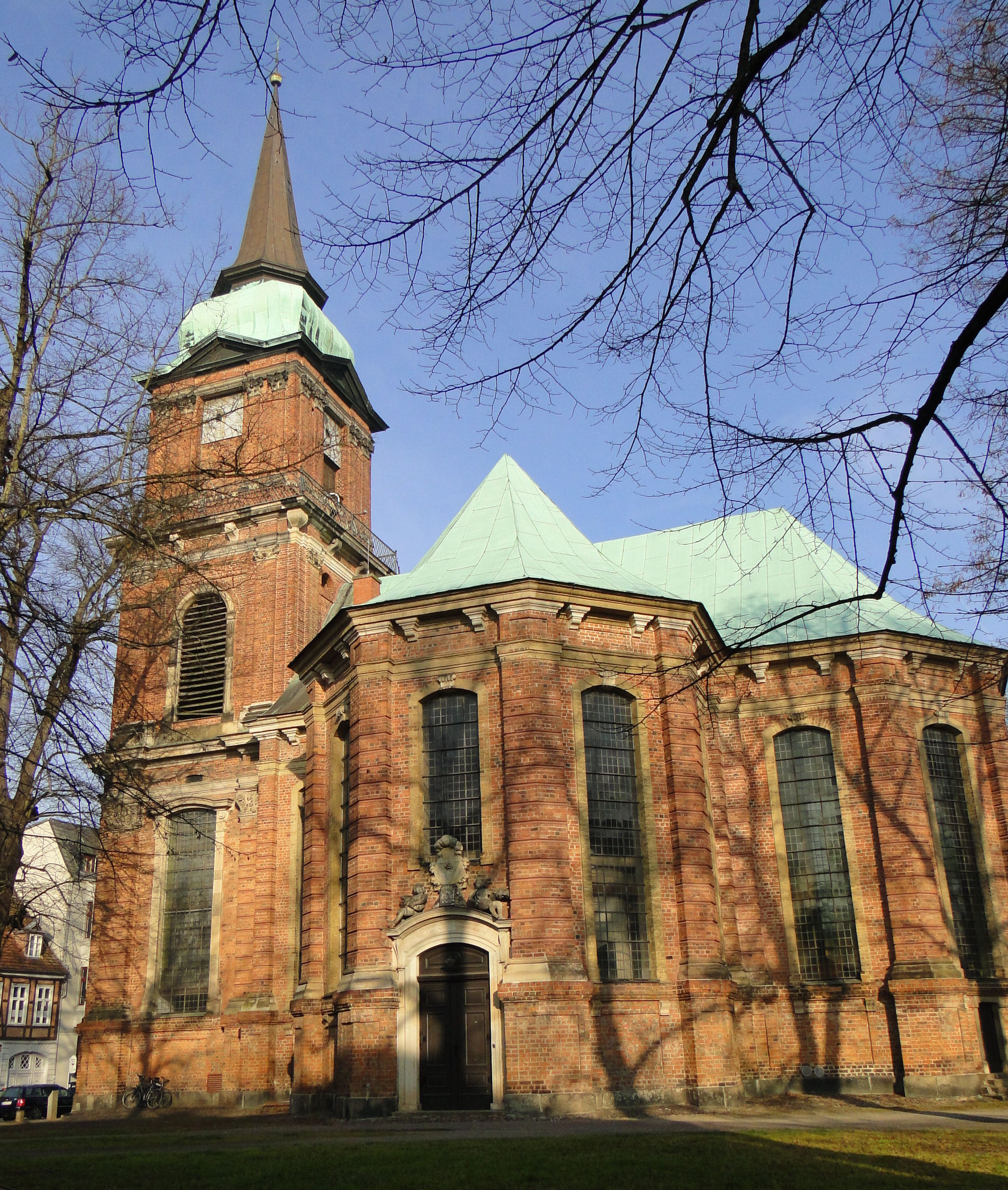 Church Schelfkirche in Schwerin, Mecklenburg-Vorpommern, Germany